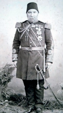 Vidinli Hüseyin Tevfik Pasha. Ottoman statesman and mathematician. Author of "Linear Algebra" (1892)